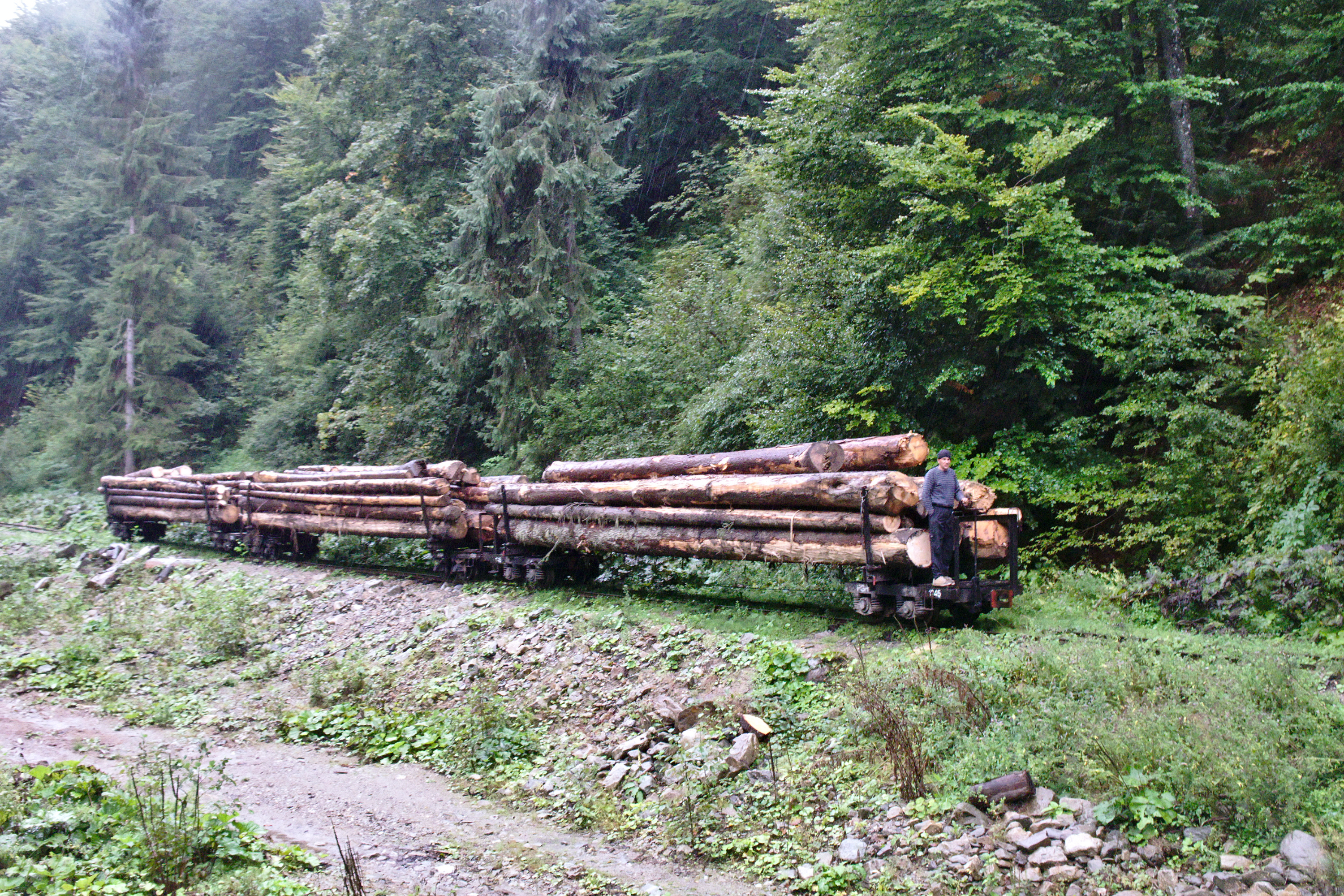 Three loaded pairs of trucks, manned with a brakesman are waiting to be coupled to a train at Novicior loading point.